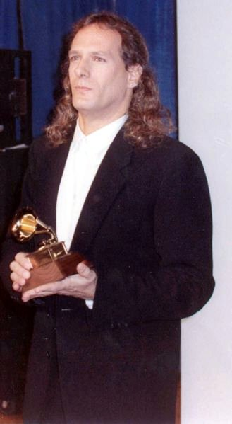 Michael Bolton at the Grammy Awards977